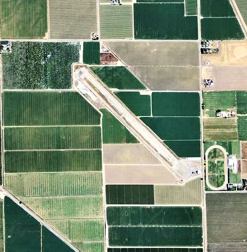 USGS digital orthophoto of Kingdon Airpark in California